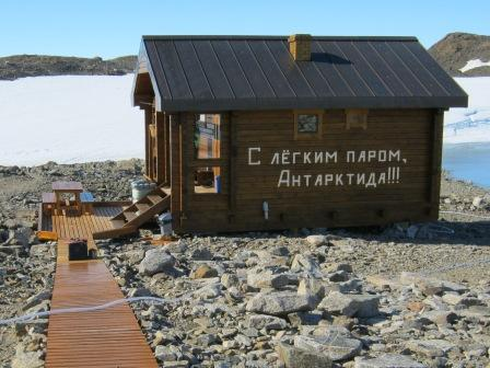 Russian Bath in Antarctica. The sign reads "Enjoy your steam Antarctica!" (a traditional Russian greeting in Sauna)